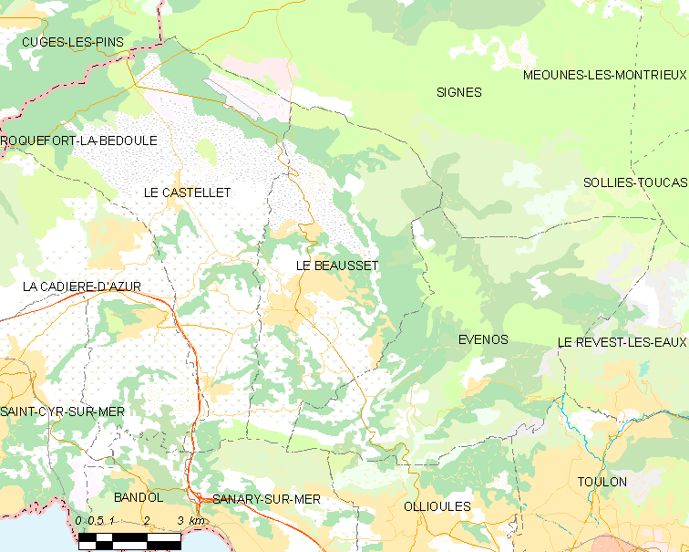 Map of French municipality Le Beausset